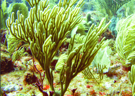 Composite of images from Saba Bank, the largest submarine atoll in the Atlantic Ocean.